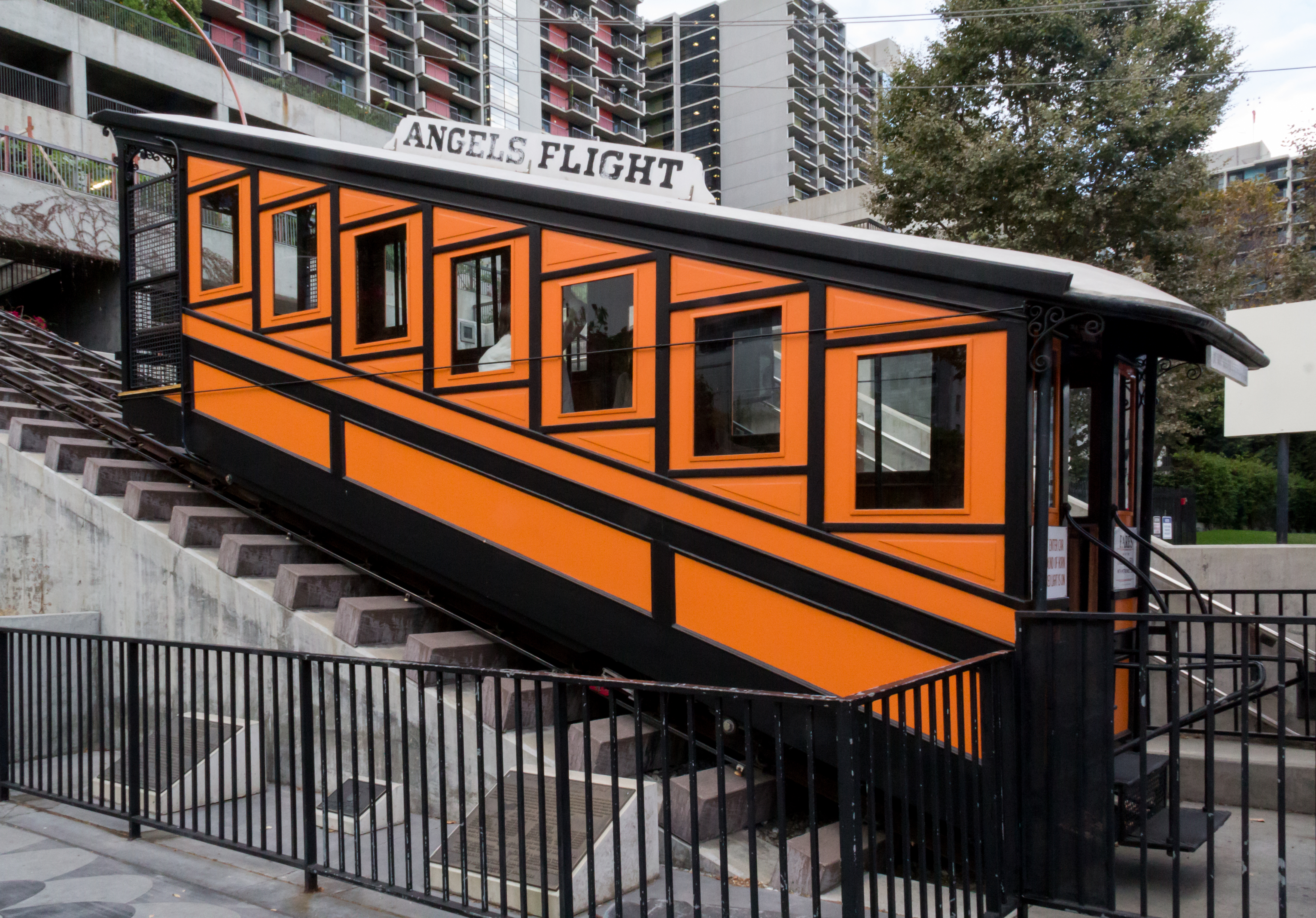 Angels's Flight in Los Angeles (California, USA)